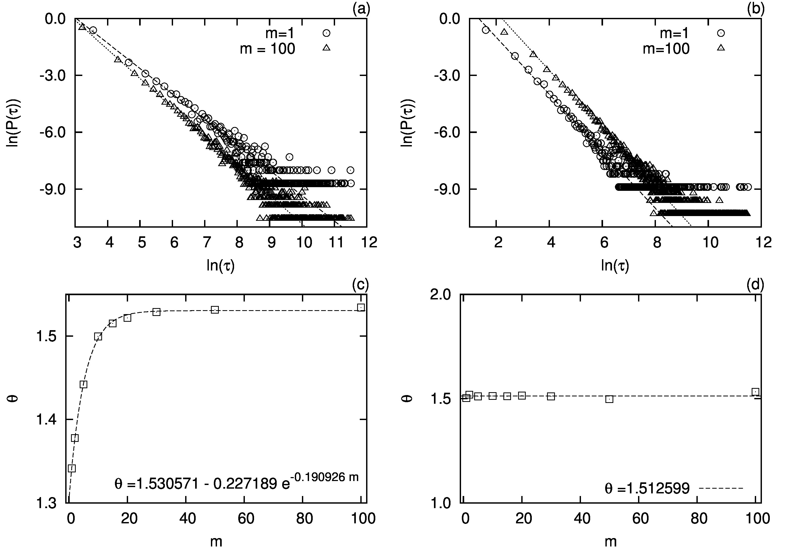 The two plots at the top reveal the power-law behaviour of the leadership persistence probability. To appreciate the role of m we give leadership persistence probability for two values (m=1 and m=100) in the same plot: (a) BA networks and (b) MDA networks. The two plots at the bottom are for the persistence exponent as a function of m in (c) BA networks and (d) MDA networks.